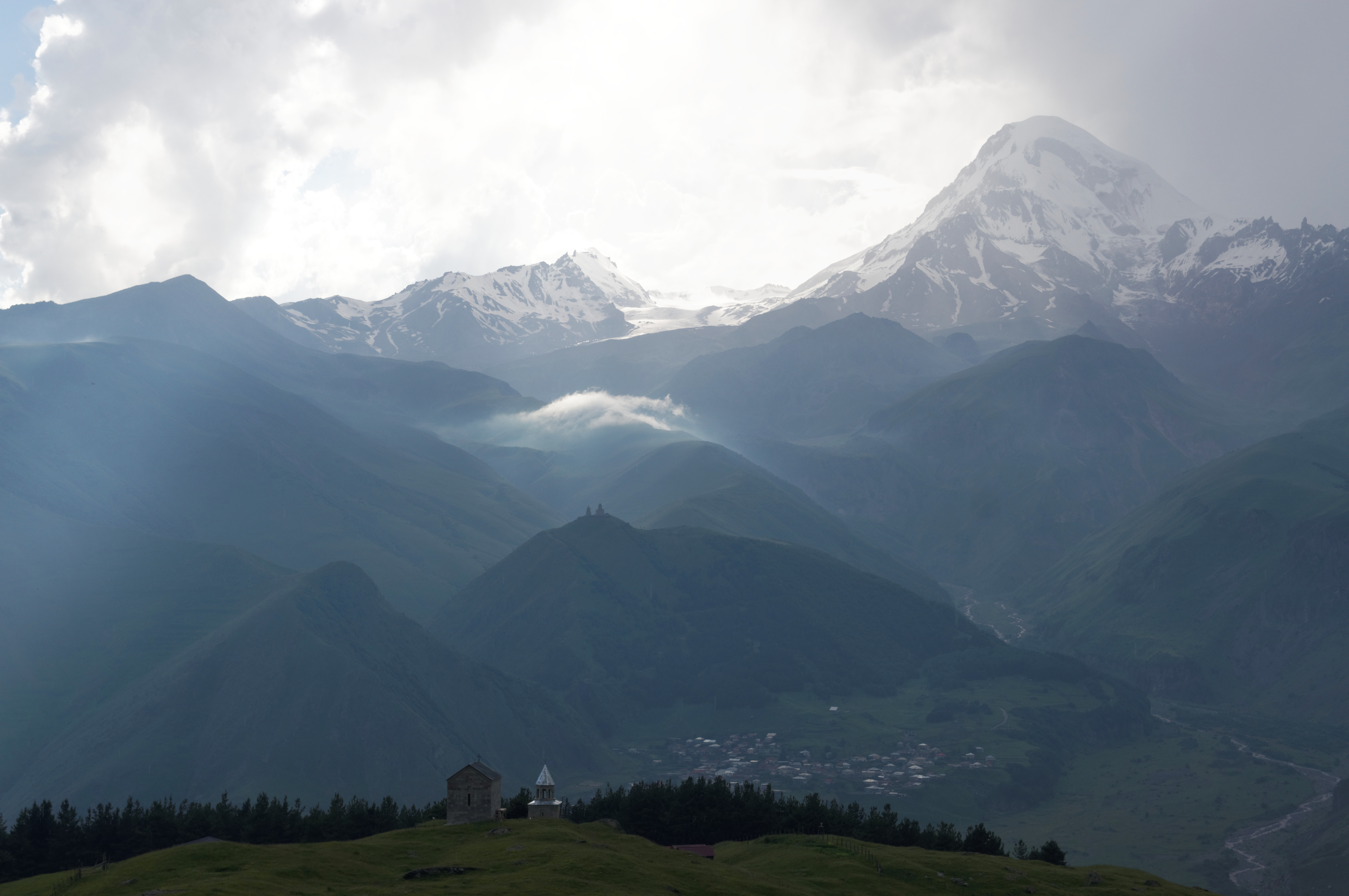 Dramatic lighting and weather conditions around the seventh-highest summit in the Caucasus Mountains.